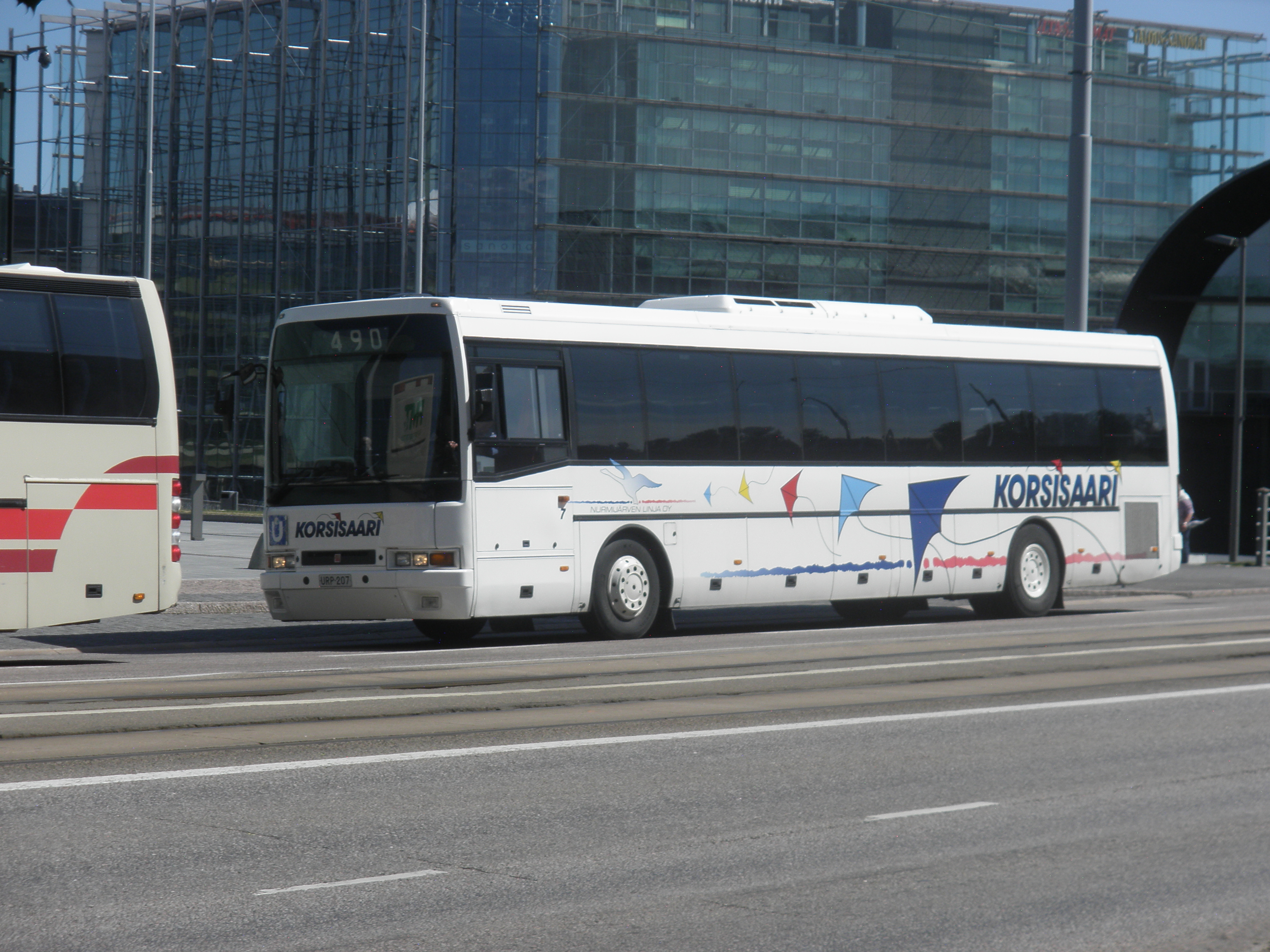 Korsisaari's bus in Helsinki, summer 2013